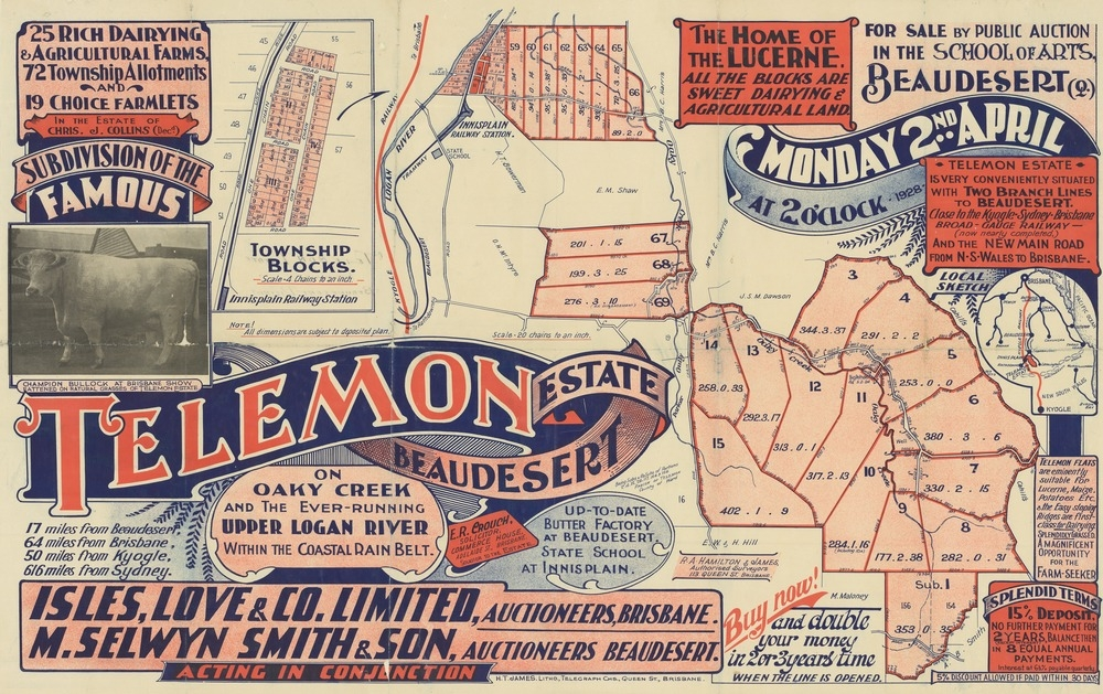 Creator: Isles Love & Co., M. Selwyn Smith & Son, Auctioneers ; R.A. Hamilton & James, Surveyors. Location: Beaudesert, Brisbane, Queensland. Description: Plan of allotments to be sold 2nd April, 1928. Estate covers area situated between Rathdowney and Lamington, below Beaudesert. 60 x 96 cm. Scale 1:15,840. 20 chains to an inch. Map includes conditions of purchase, brief description of the land and public transport available, locality map and one B&W photo. Read more about SLQ's map collections: View this image at the State Library of Queensland: Information about State Library of Queensland’s collection: You are free to use this image without permission. Please attribute State Library of Queensland.